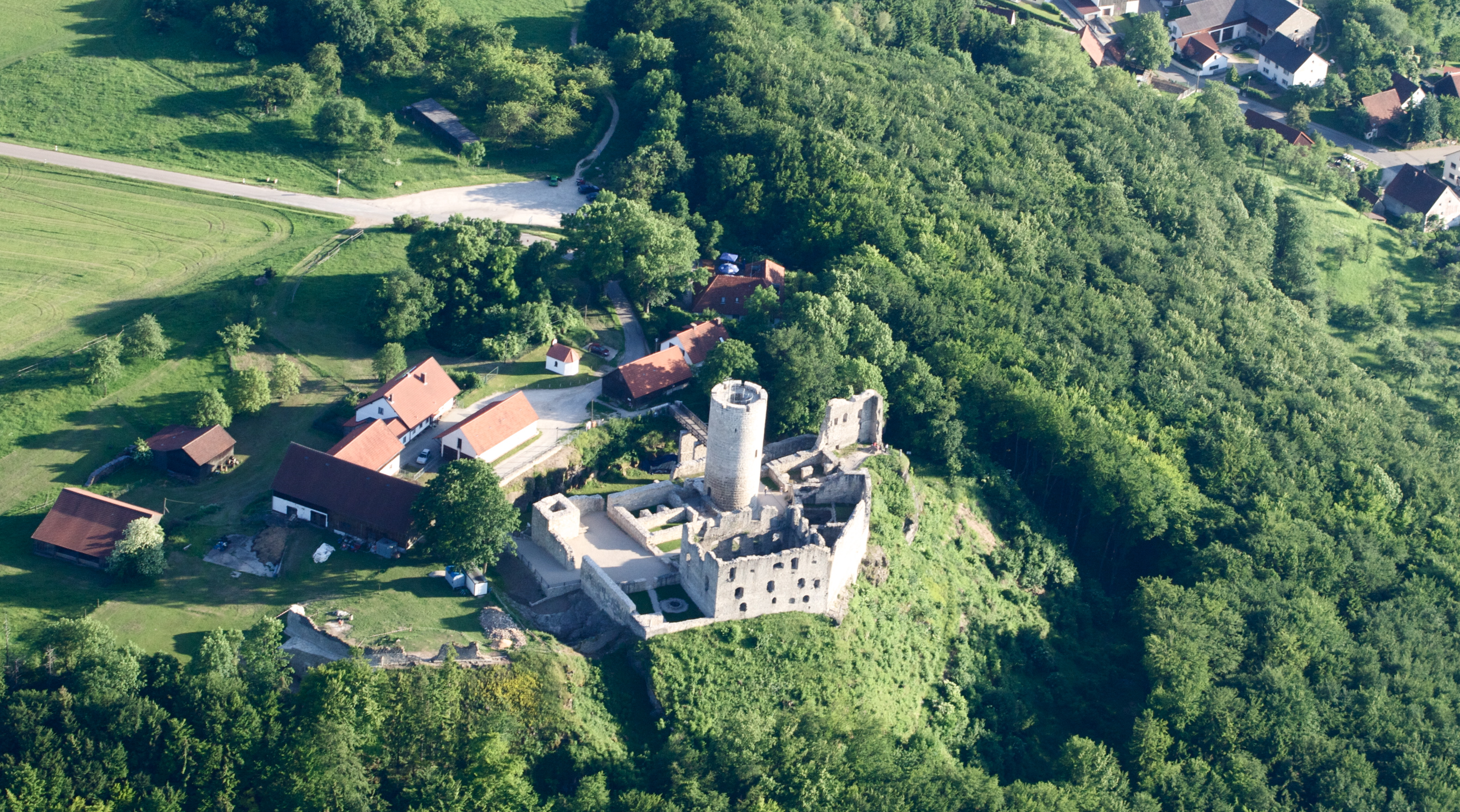 Airphoto Castle Wolfstein